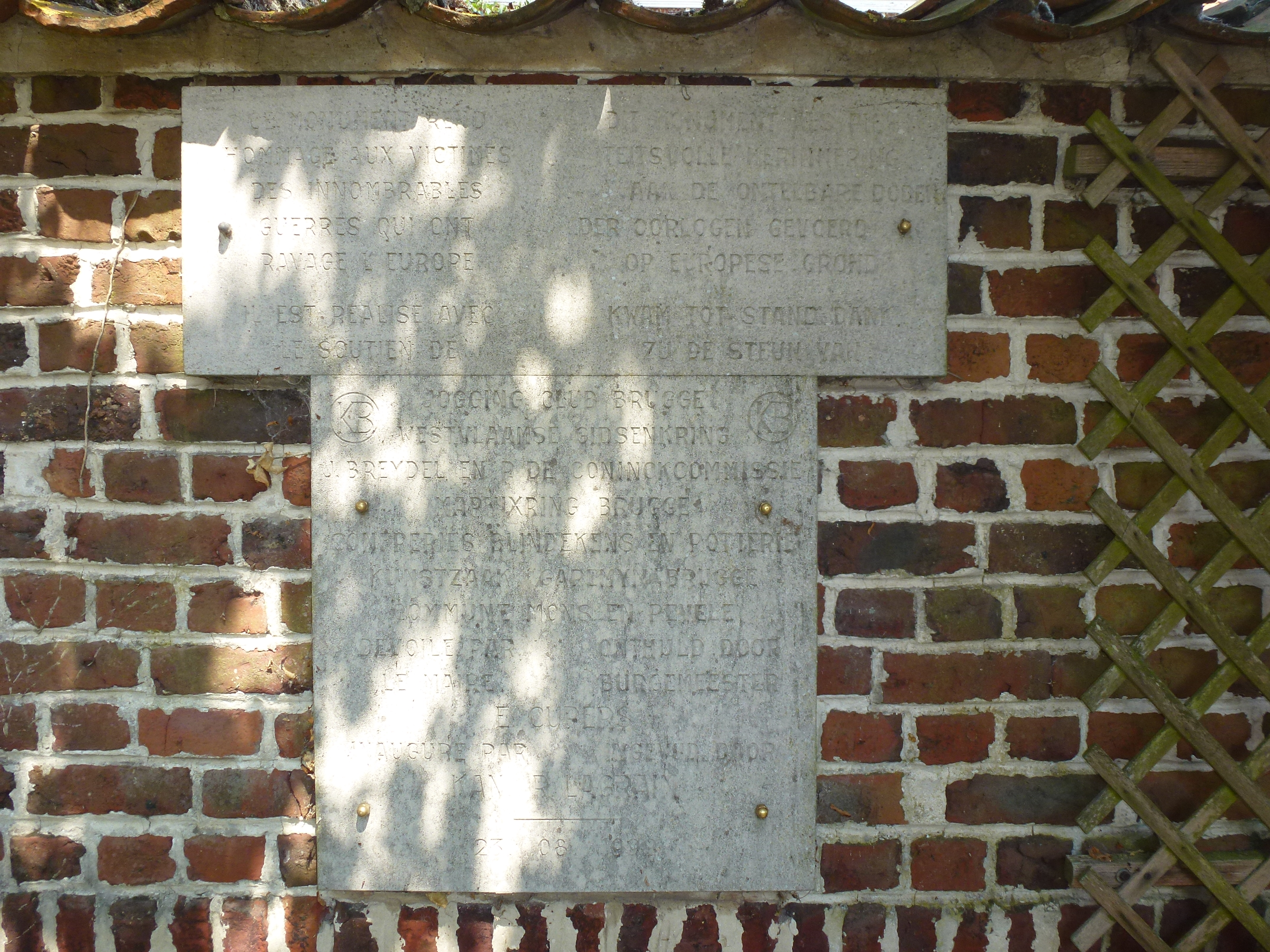 Mons-en-Pévèle (Nord, Fr) memorial Bataille 1304